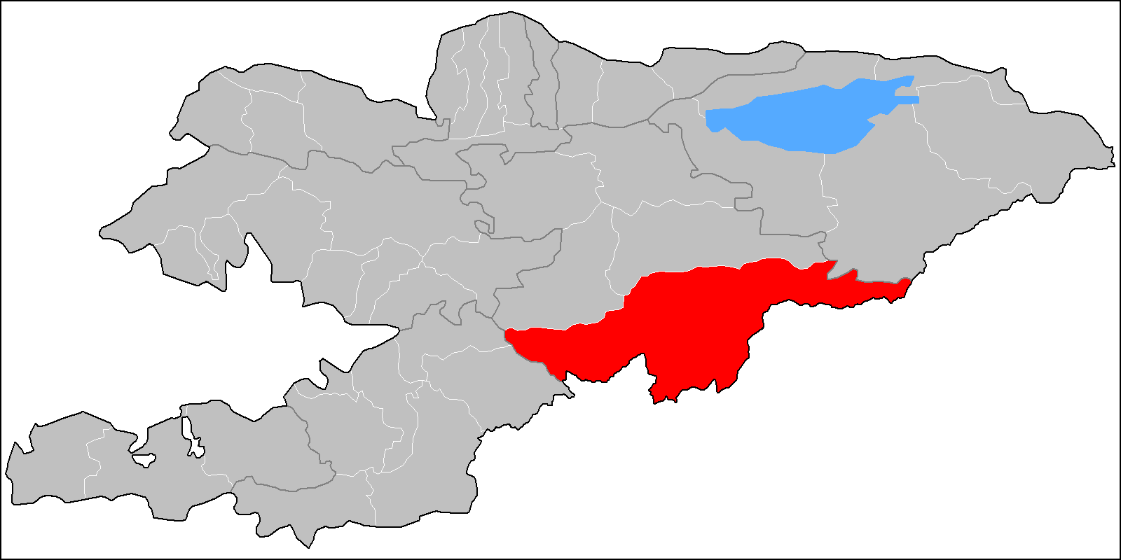 The location of the raion (district) of At-Bashy in Kyrgyzstan. Based on Image:Kyrgyzstan raions.png